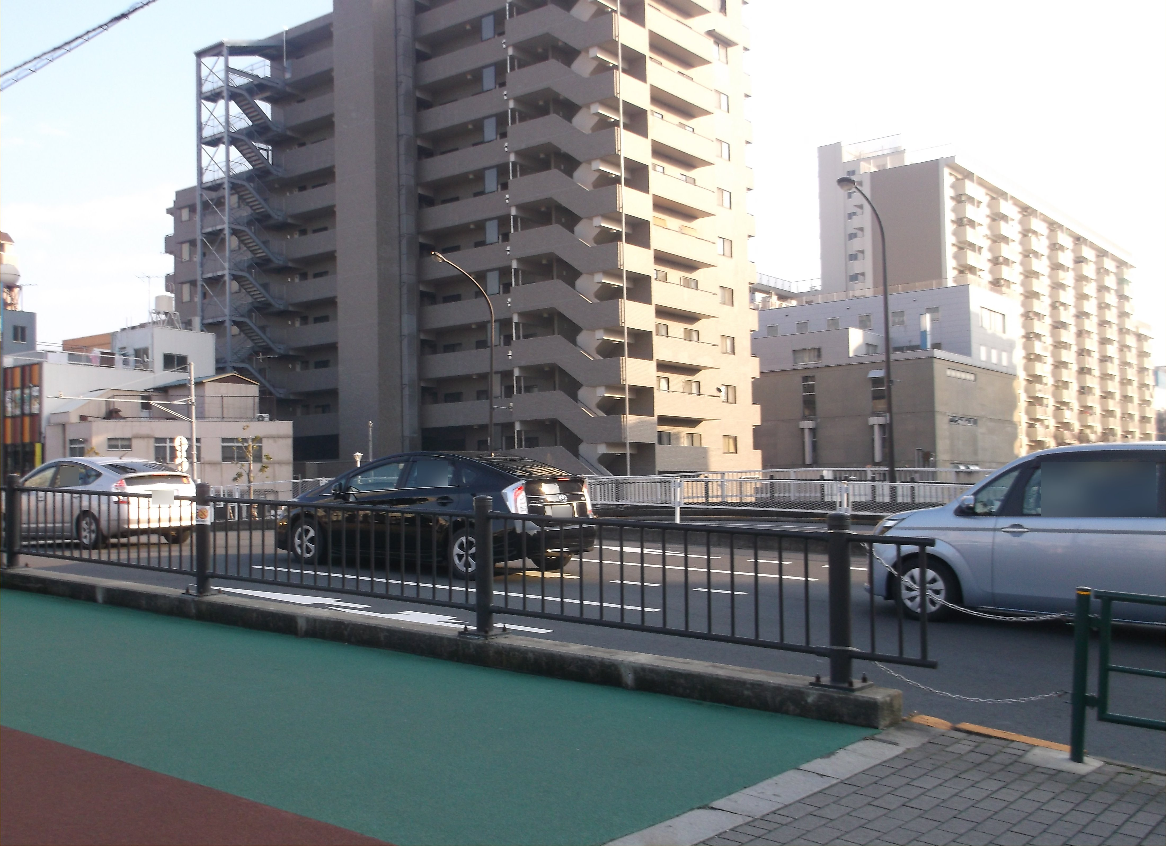 A photo of Narihira Bridge,Sumida-ku,Tokyo,Japan.